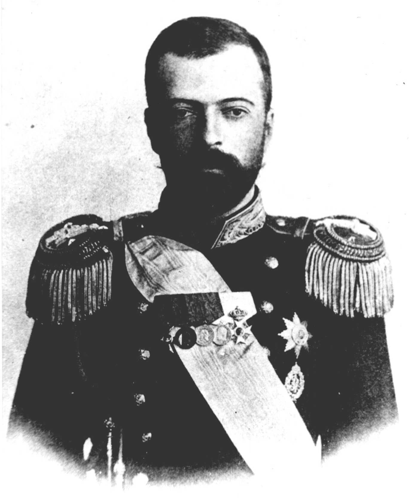 Alexander Mikhailovich Romanov